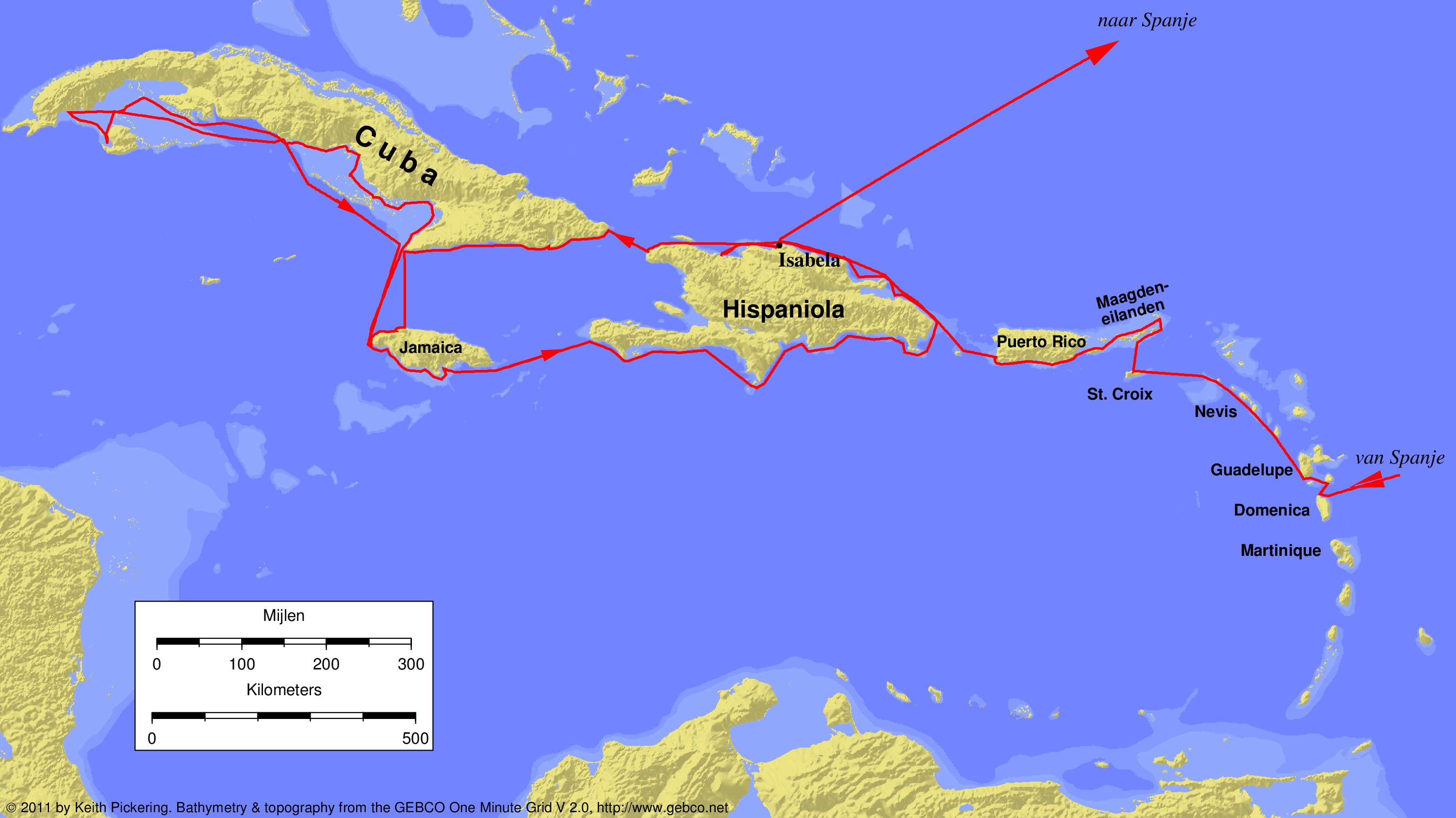 Map of the second voyage of Christopher Columbus